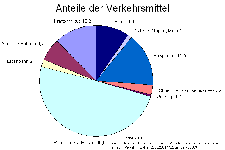 The graphic shows which mean of transport working persons, students, and pupils used in the year 2000 in Germany on their way to school/working place. If people use more than one on their way to work, the mean of transport is taken, which they used the longest way between house and working place.